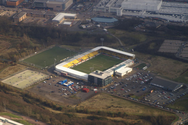 Almondvale Stadium Home of Livingston FC; taken from a plane approaching Edinburgh Airport.